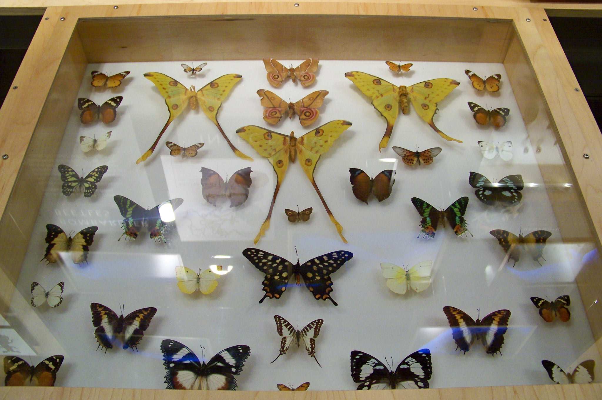 Butterfly collection at the California Academy of Science in San Francisco, California